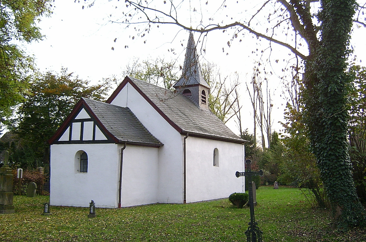 Chapel of St. Nicolas in Porz-Westhoven (Cologne, Germany)